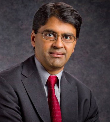 Rajeev Madhavan (to be featured at